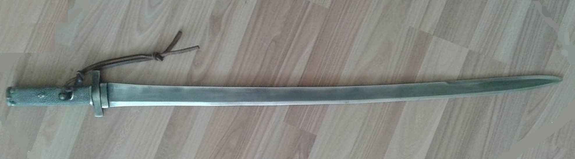 A present day replica to the famous archaelogical artifact, produced by Milen Petrov in Ratina workshop.